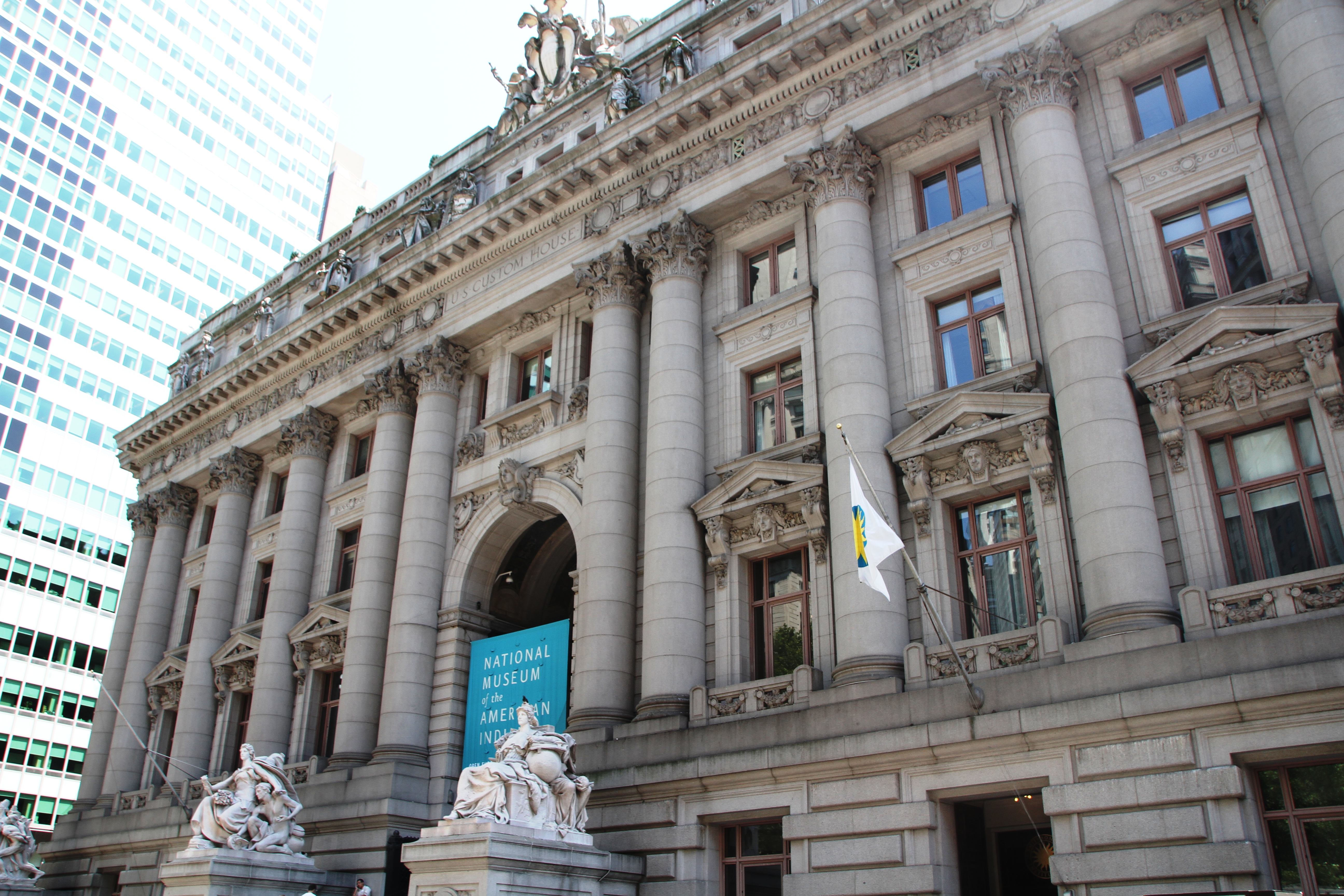 The Smithsonian National Museum of the Native Indian, New York — Battery Park, New York City.